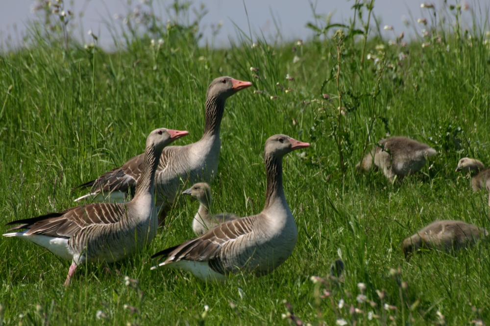 Greylag goose (Anser anser), Mekszikópuszta, Hungary